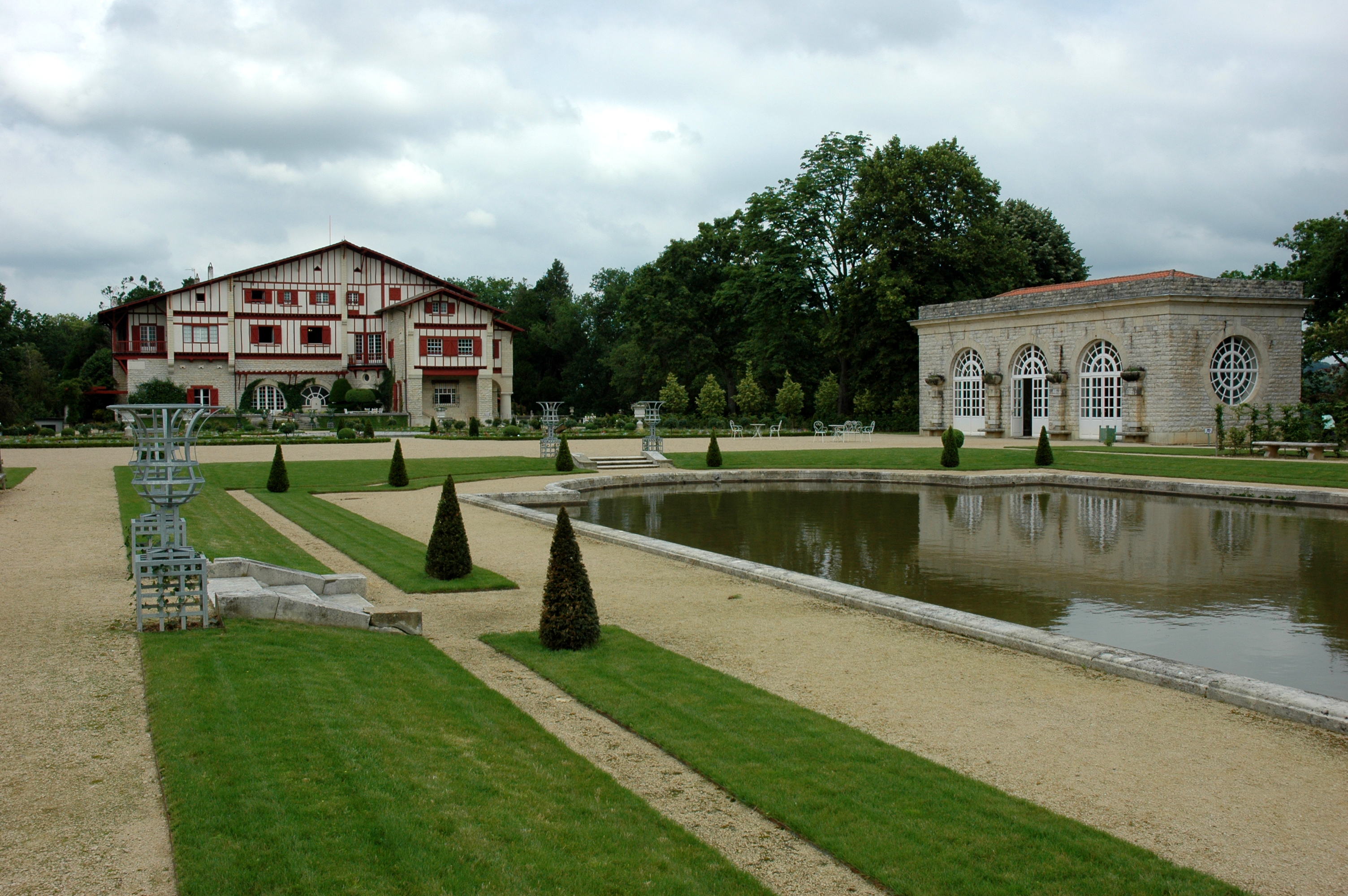 Villa Arnaga